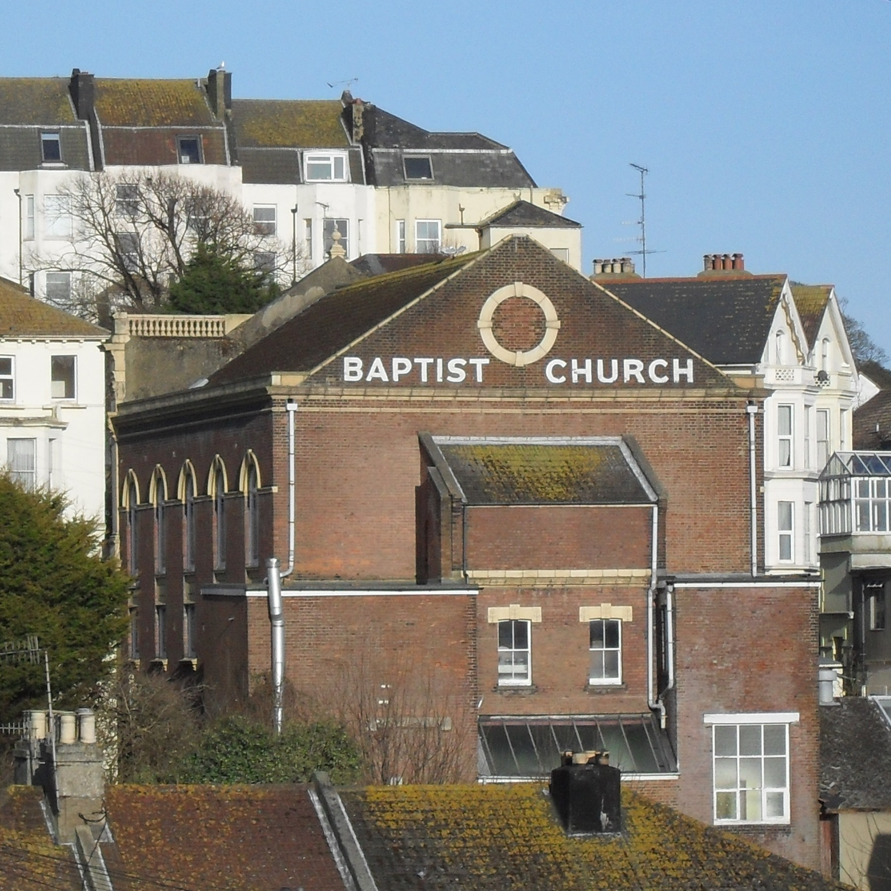 Rear elevation of St Leonard's Baptist Church, Chapel Park Road, St Leonards-on-Sea, Hastings, East Sussex, England. Built in 1883 by Thomas Elworthy. Listed at Grade II by English Heritage (IoE Code 294178)